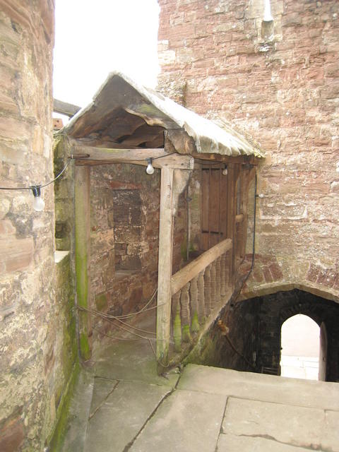 Edward II's cell. This covered walkway in Berkeley Castle leads into the chamber where it is said that Edward II met a rather nasty end with a red hot poker! After his death he was taken to Gloucester Cathedral where he is buried. See 61280.